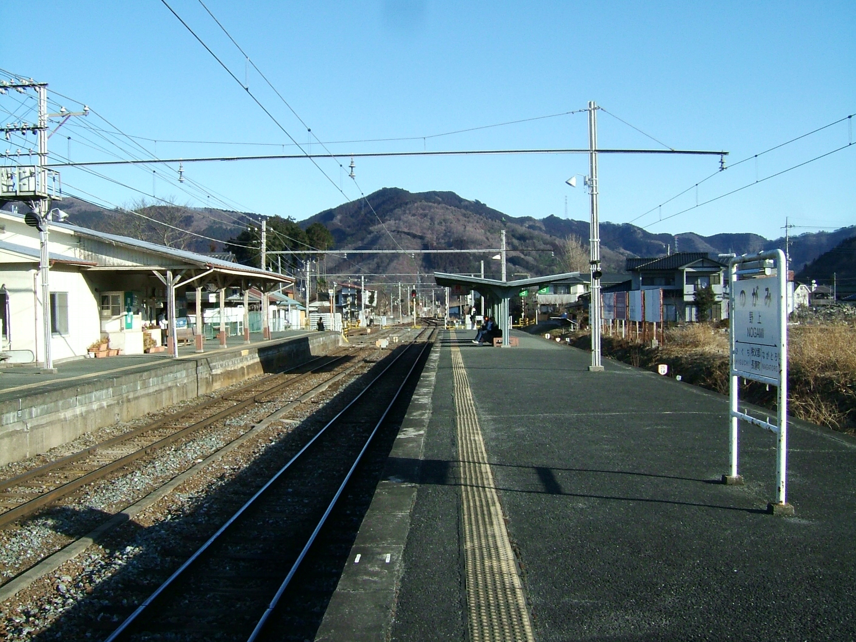 The platforms at Nogami Station on the Chichibu Main Line